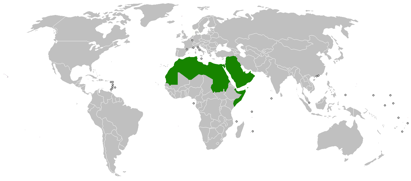 Arab League World Map